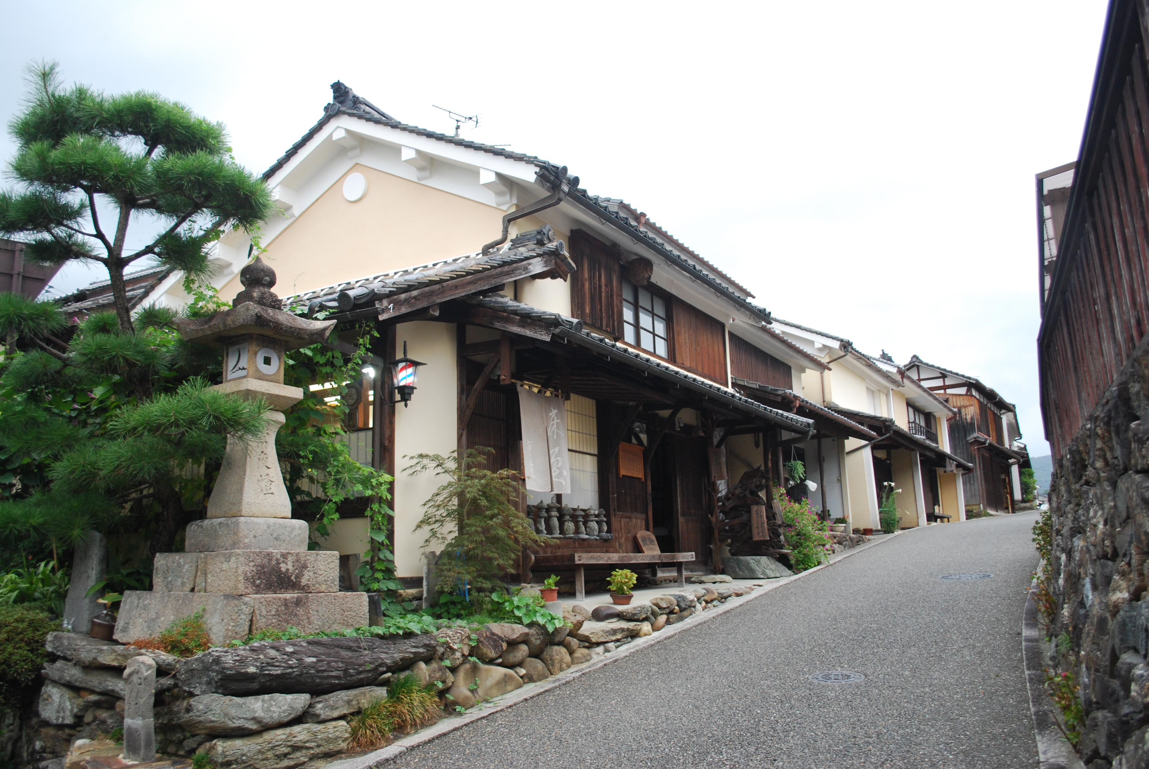 Uchiko1,Uchiko-town,Japan. Row of houses along a city street of Uchiko.